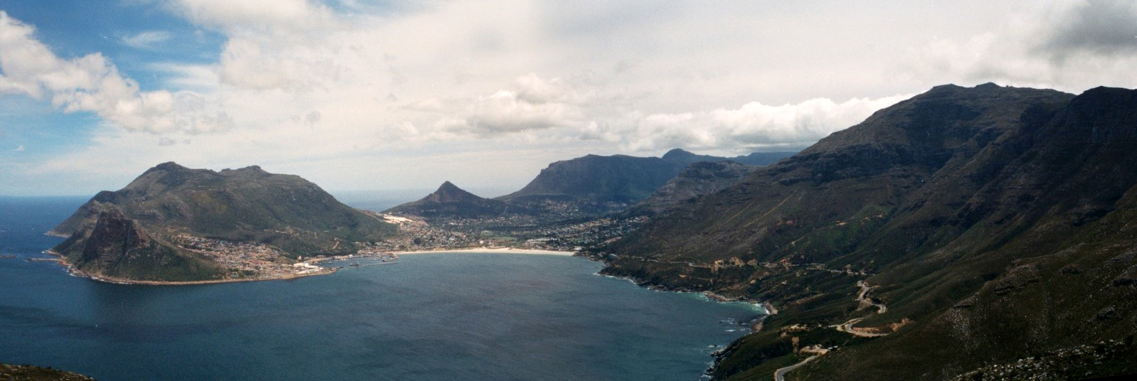 Hout Bay as seen from Chapman's Peak.